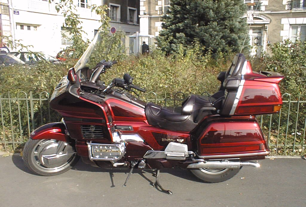 Honda Goldwing 1500